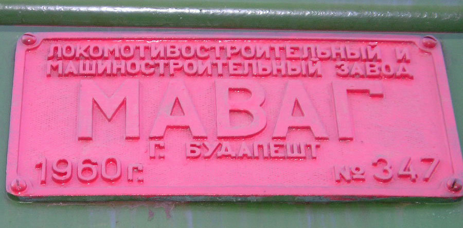 Nameplate of the MAVAG locomotive factory on diesel locomotive VME1 exported to USSR